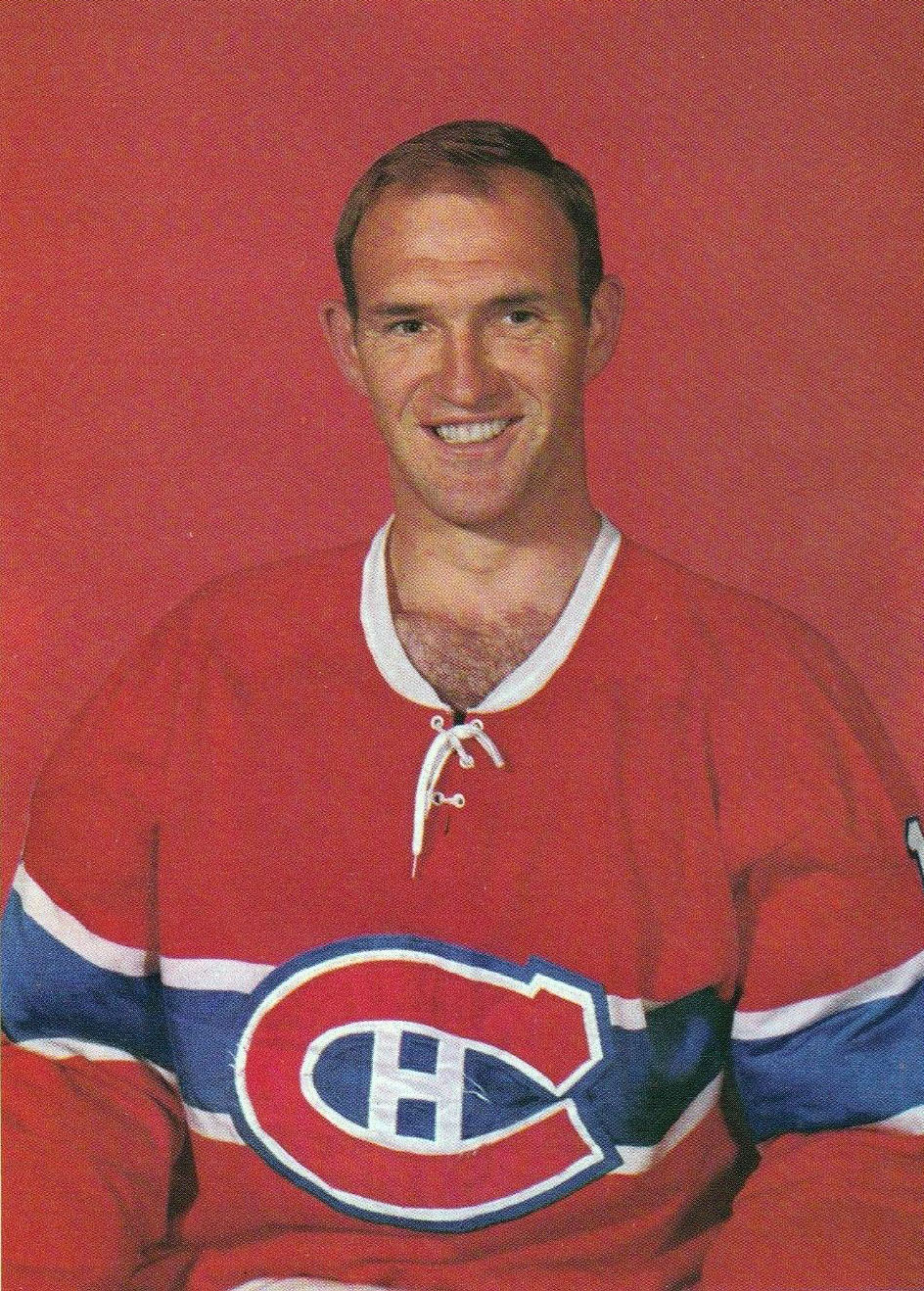 Charlie Hodge, Montreal Canadiens Printed on Chex Cereal Boxes from 1963 to 1965 per [1] and [2]. No copyright notices are observed on the obverse or reverse of the photos.